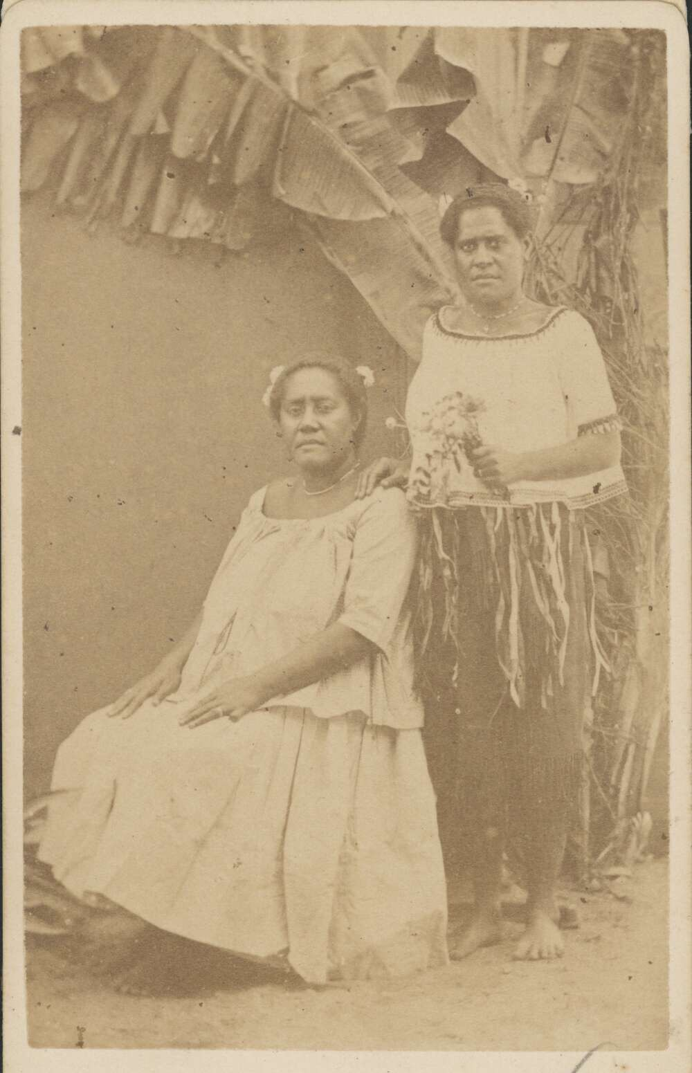 Two daughters of Cakobau and Adi Litia, wearing smocks and skirts. Adi Kakua is the one on the left holding an elaborately bound book (presumably a bible) while her older sister Adi Arieta Kuila (died 1881) is standing, holding a posy of flowers.